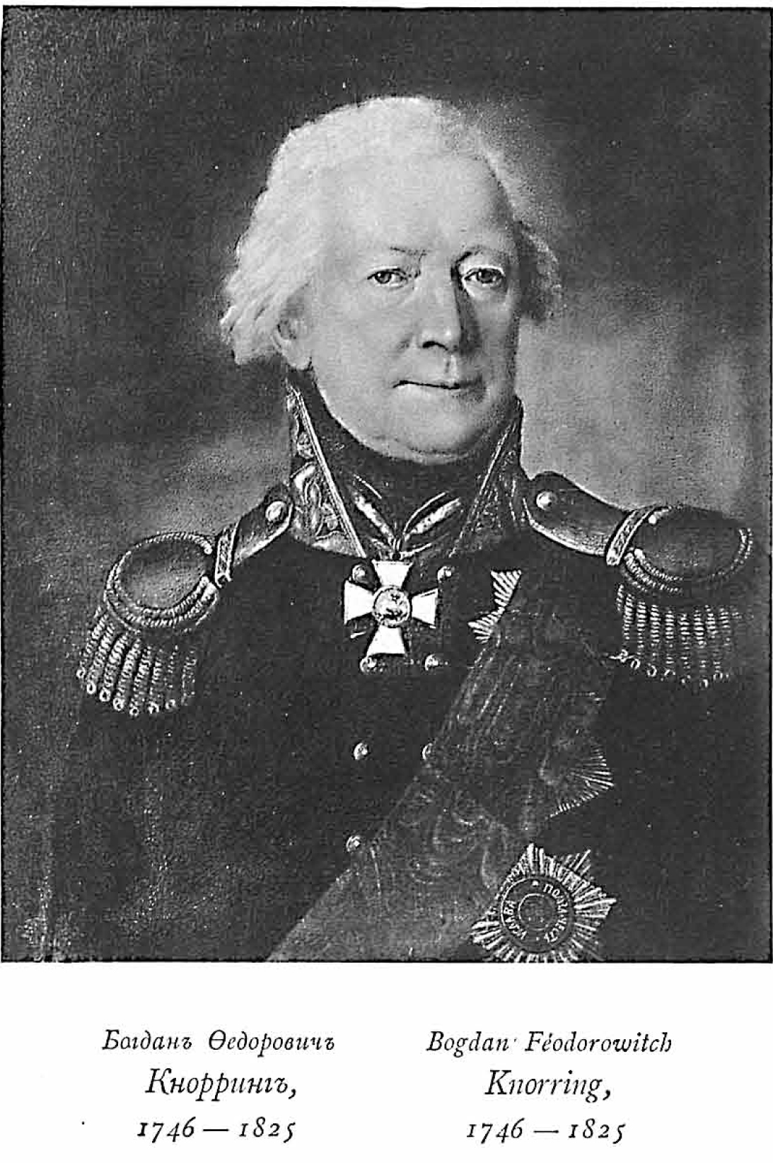 Knorring, Bogdan Fyodorovich (1746–1825).